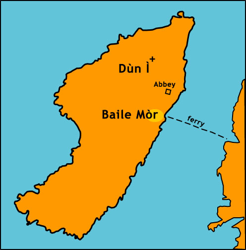 Iona, Scotland (monochrome)